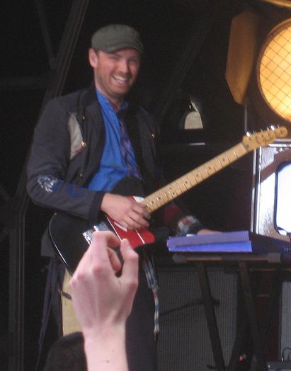 Jonny Buckland